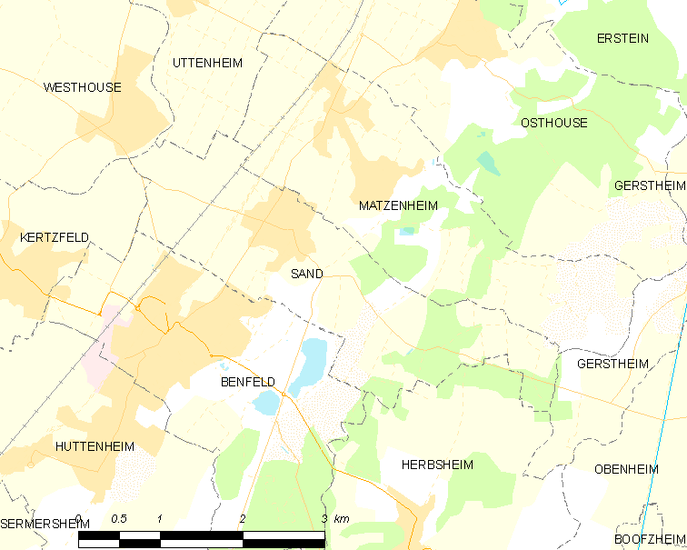 Map of French municipality